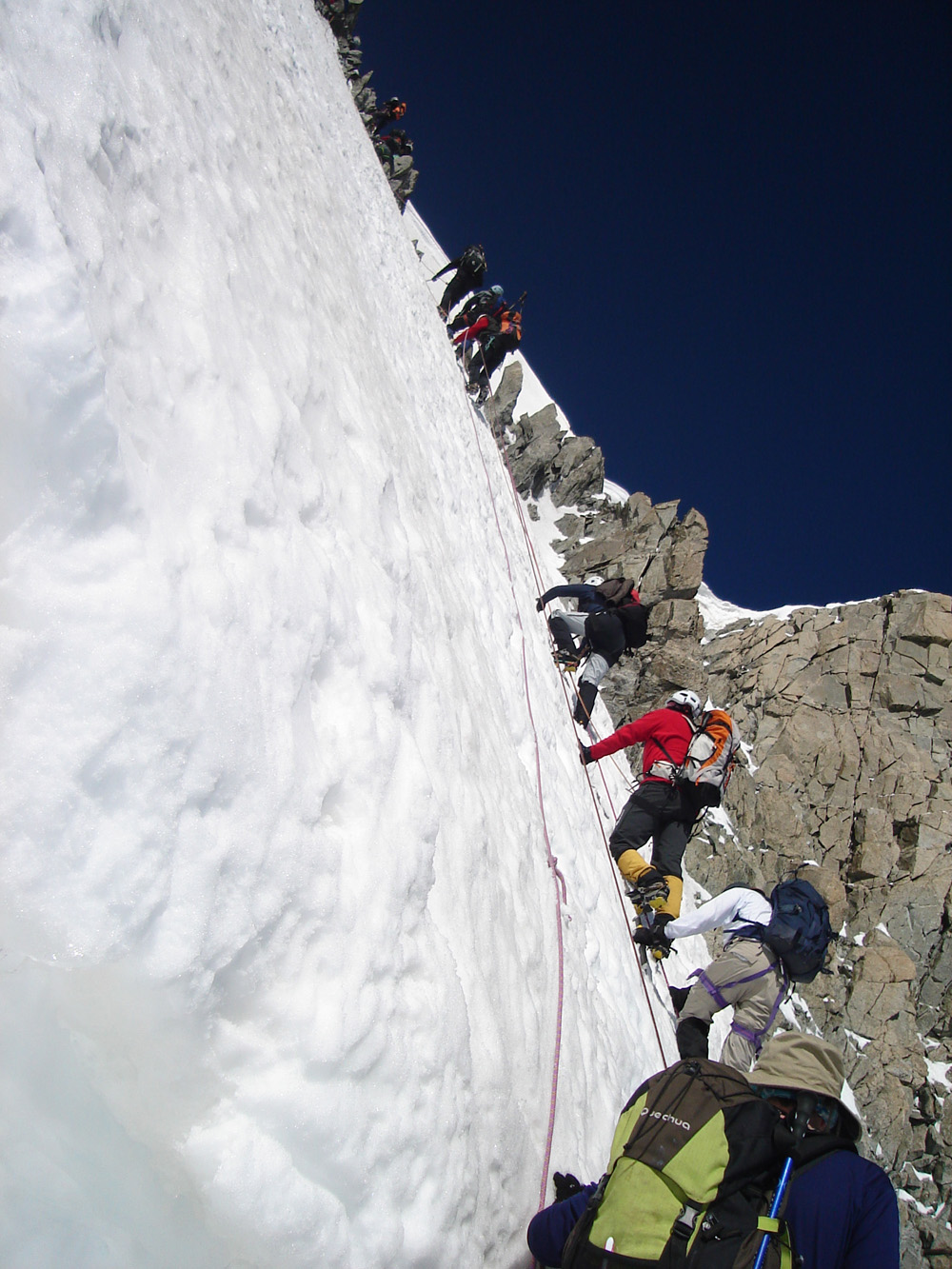 MGS Boys on Ice Trek on their way to Mont Blanc